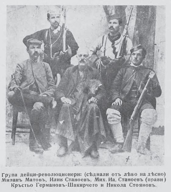 Milan Matov and other IMARO members